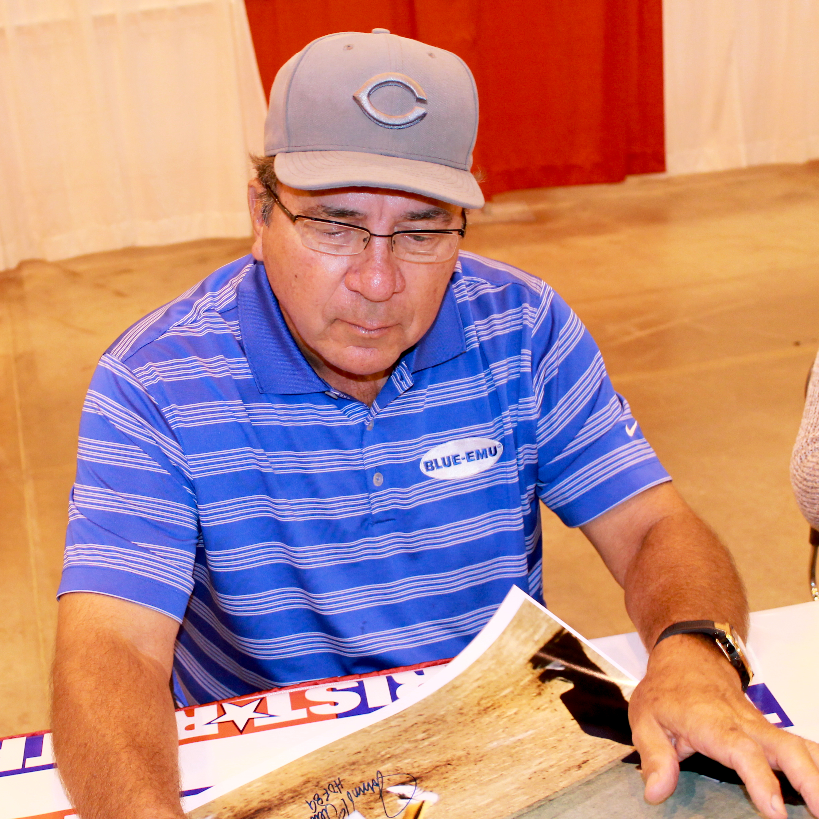 Former Major League Baseball player Johnny Bench signs autographs in Houston in May 2014.